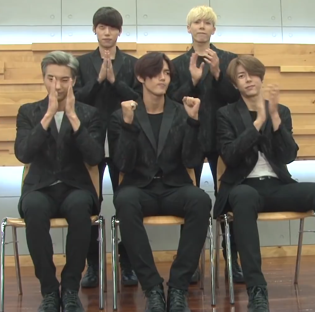 K-pop group History in an interview for KBS Entertain 2015